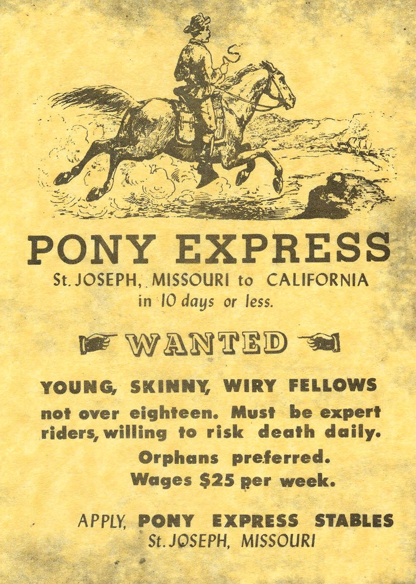 Pony Express poster advertising for young riders. This wording of this ad is sometimes considered a hoax, possibly dating back to the early 20th century. The image may be a modern reconstruction, hence possibly in copyright!